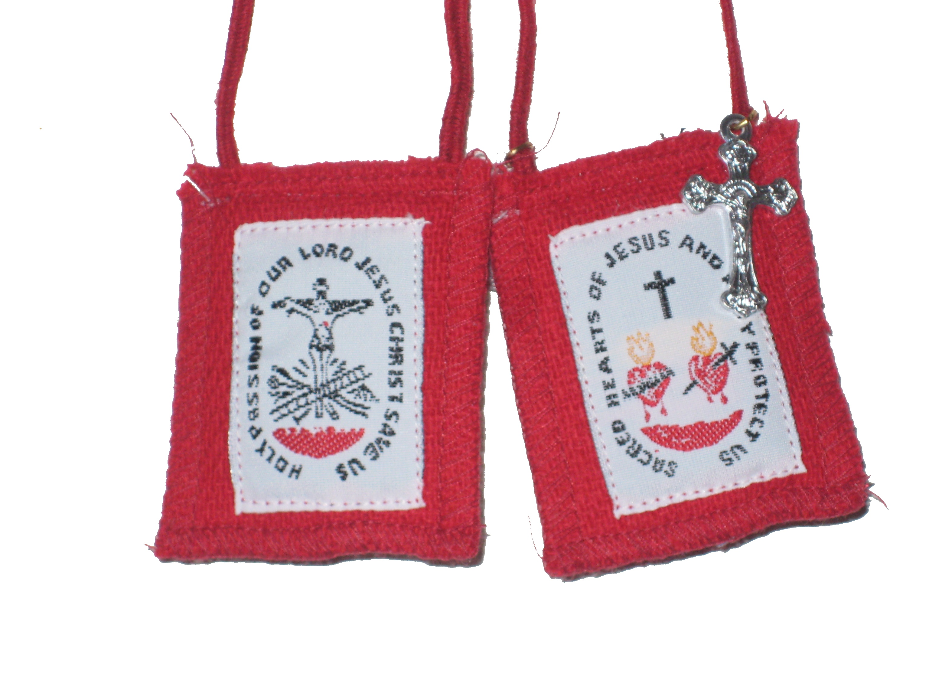 Fivefold Scapular with Red Scapular of the Passion showing and tiny crucifix attached. January 2009 photo by John Stephen Dwyer.